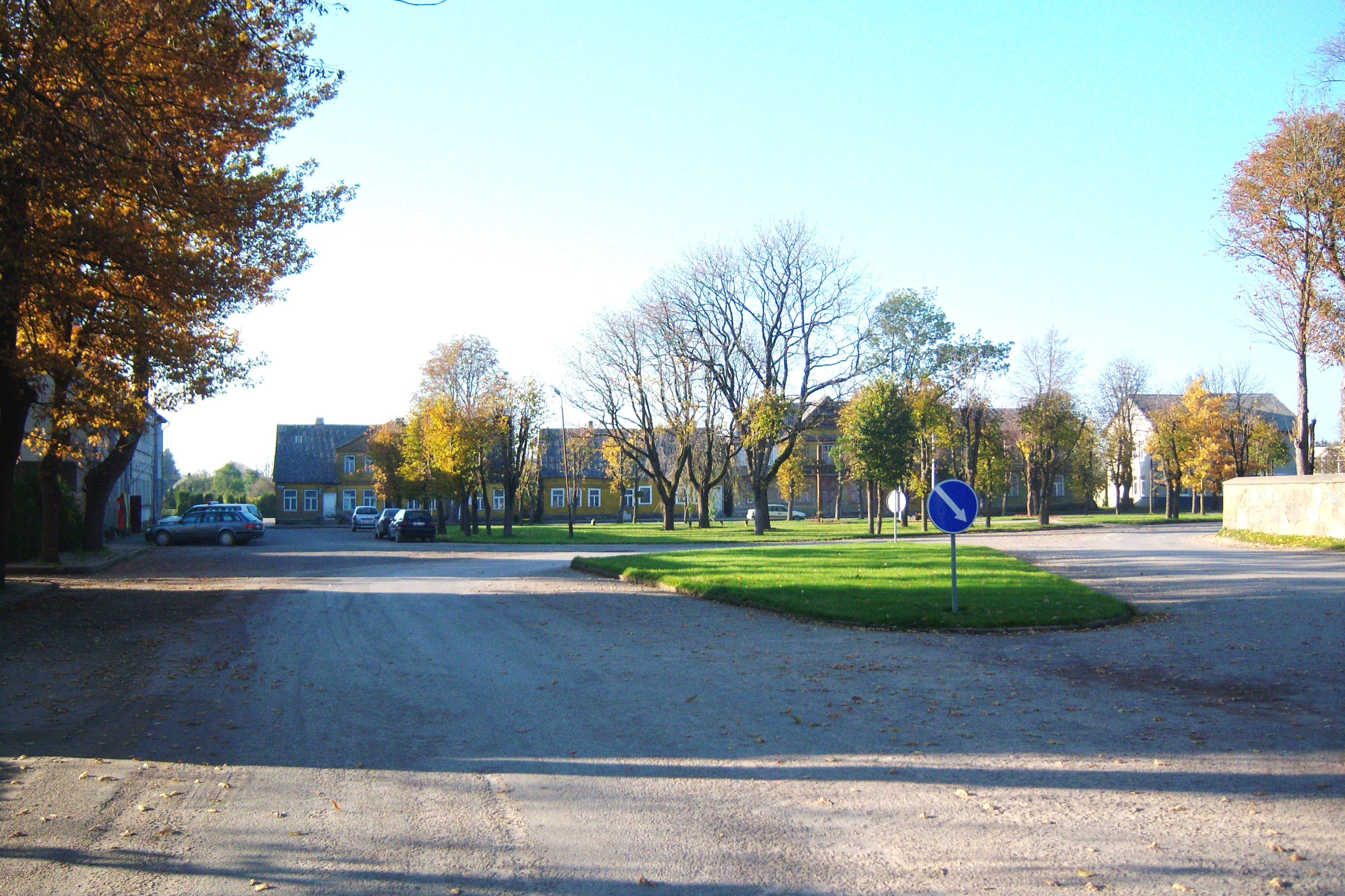 Ylakiai, center, Skuodas District. Lithuania